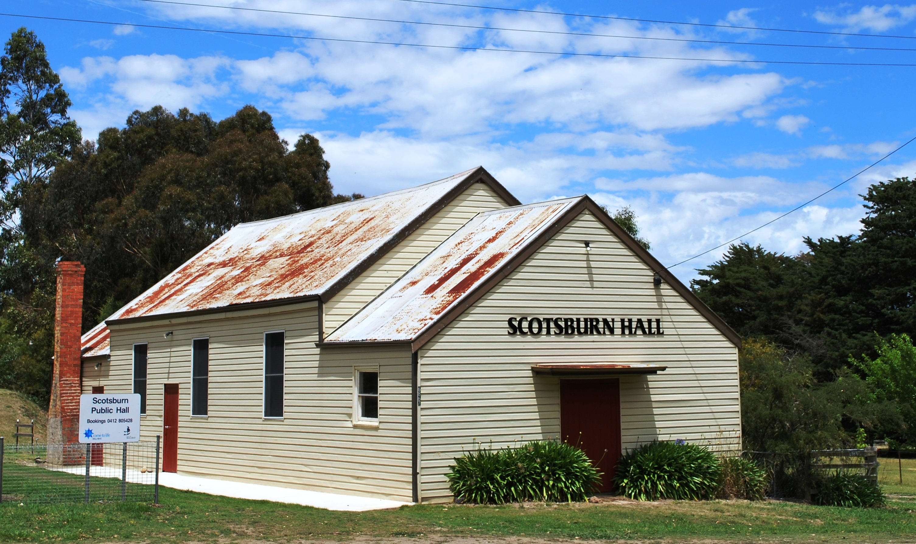 Public hall at Scotsburn, Victoria